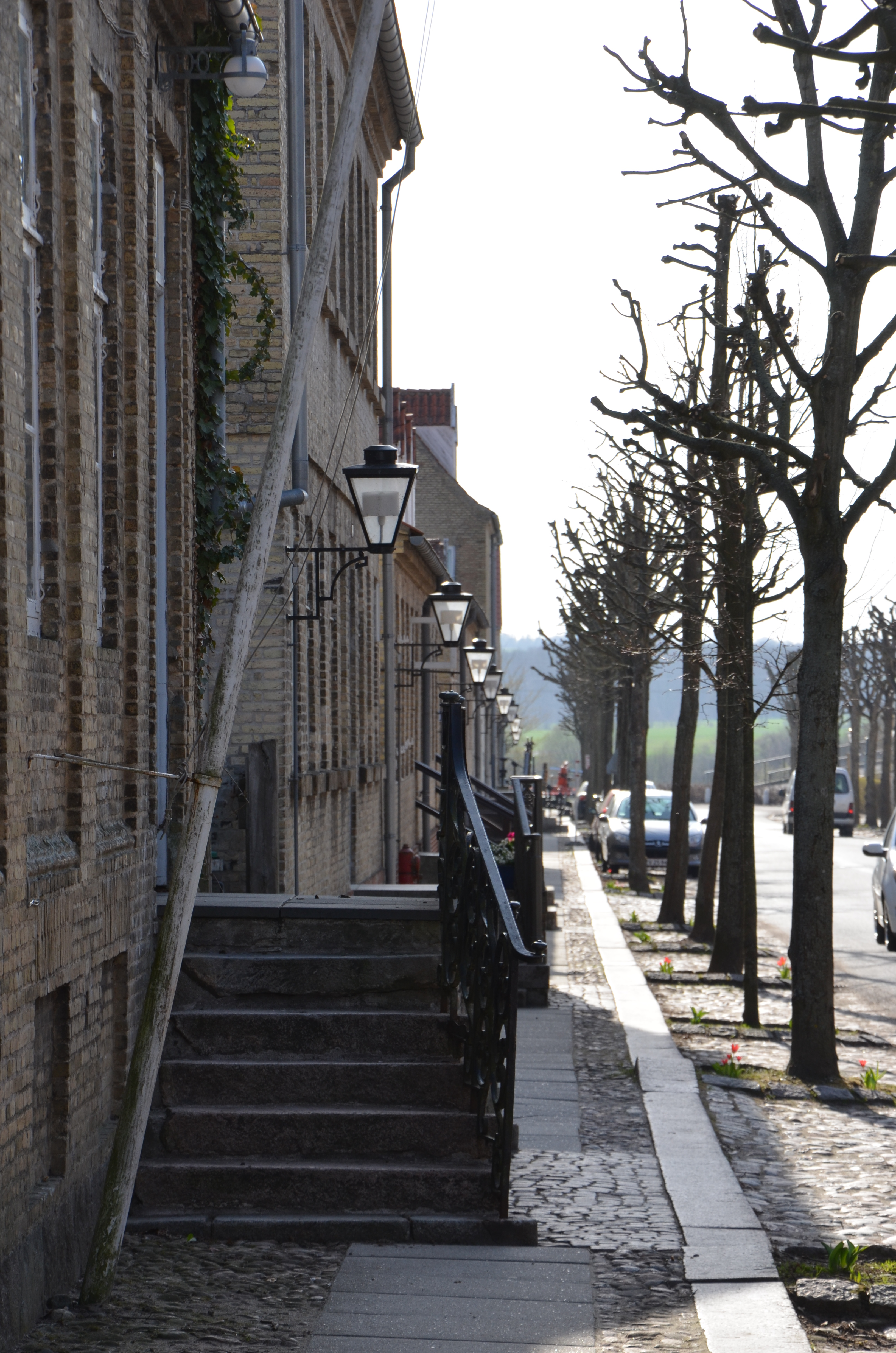 Lindegade, Christiansfeld, seen westwards from Church place